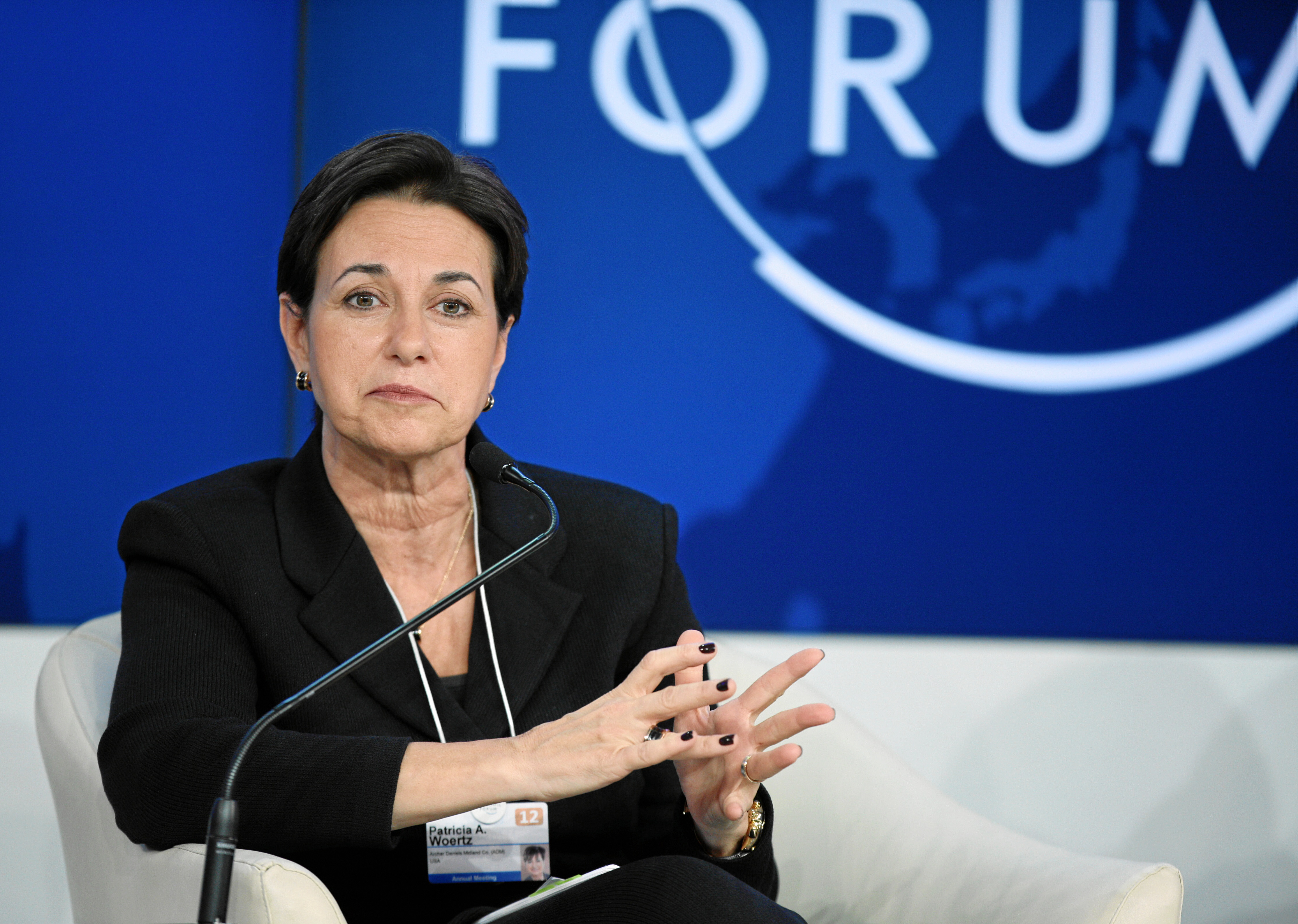 DAVOS/SWITZERLAND, 25JAN12 - Patricia A. Woertz, Chairman, President and Chief Executive Officer, Archer Daniels Midland (ADM), USA gestures during the session 'The Global Business Context' at the Annual Meeting 2012 of the World Economic Forum at the congress centre in Davos, Switzerland, January 25, 2012. Copyright by World Economic Forum by Sebastian Derungs